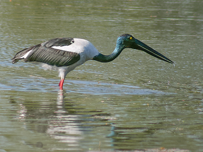 Black-necked Stork, (Ephippiorhynchus asiaticus) at Bharatpur, Rajasthan, India.